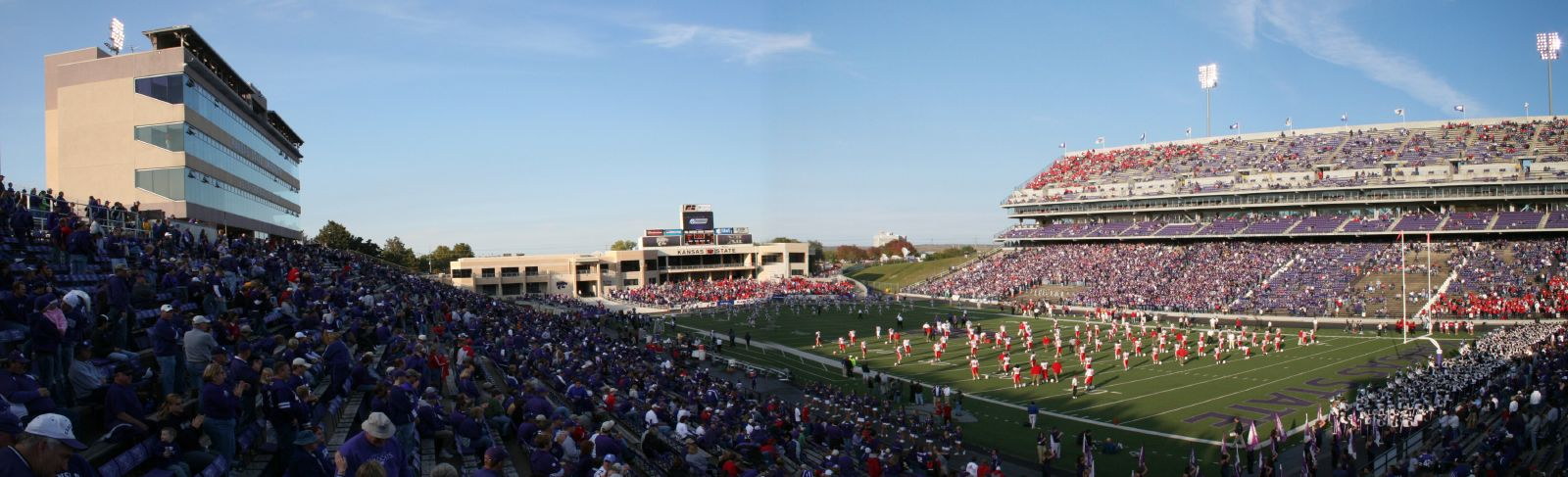 Kansas State University's Bill Snyder Family Stadium on October 15, 2006